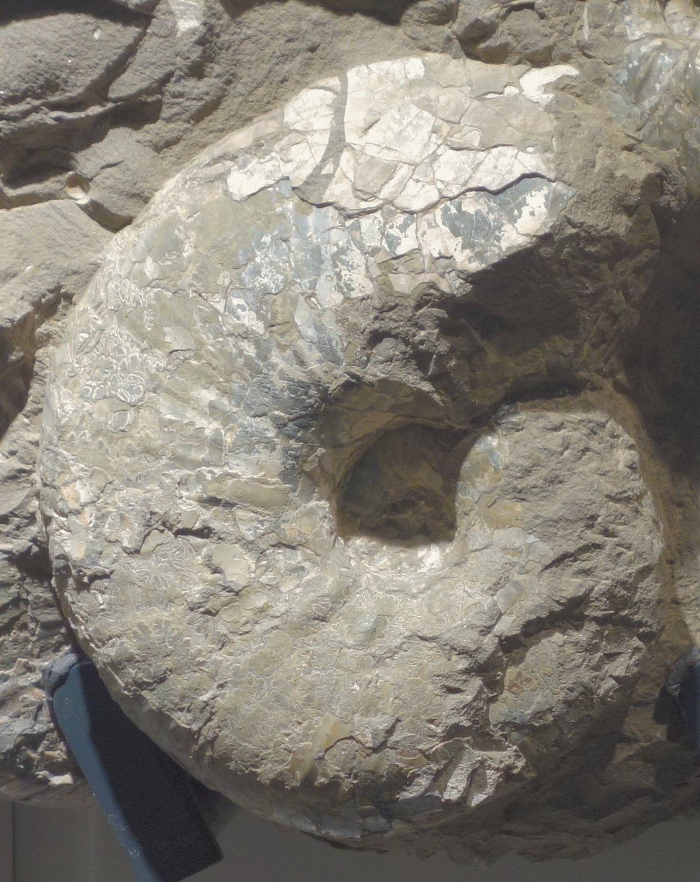 Crop of file in filename